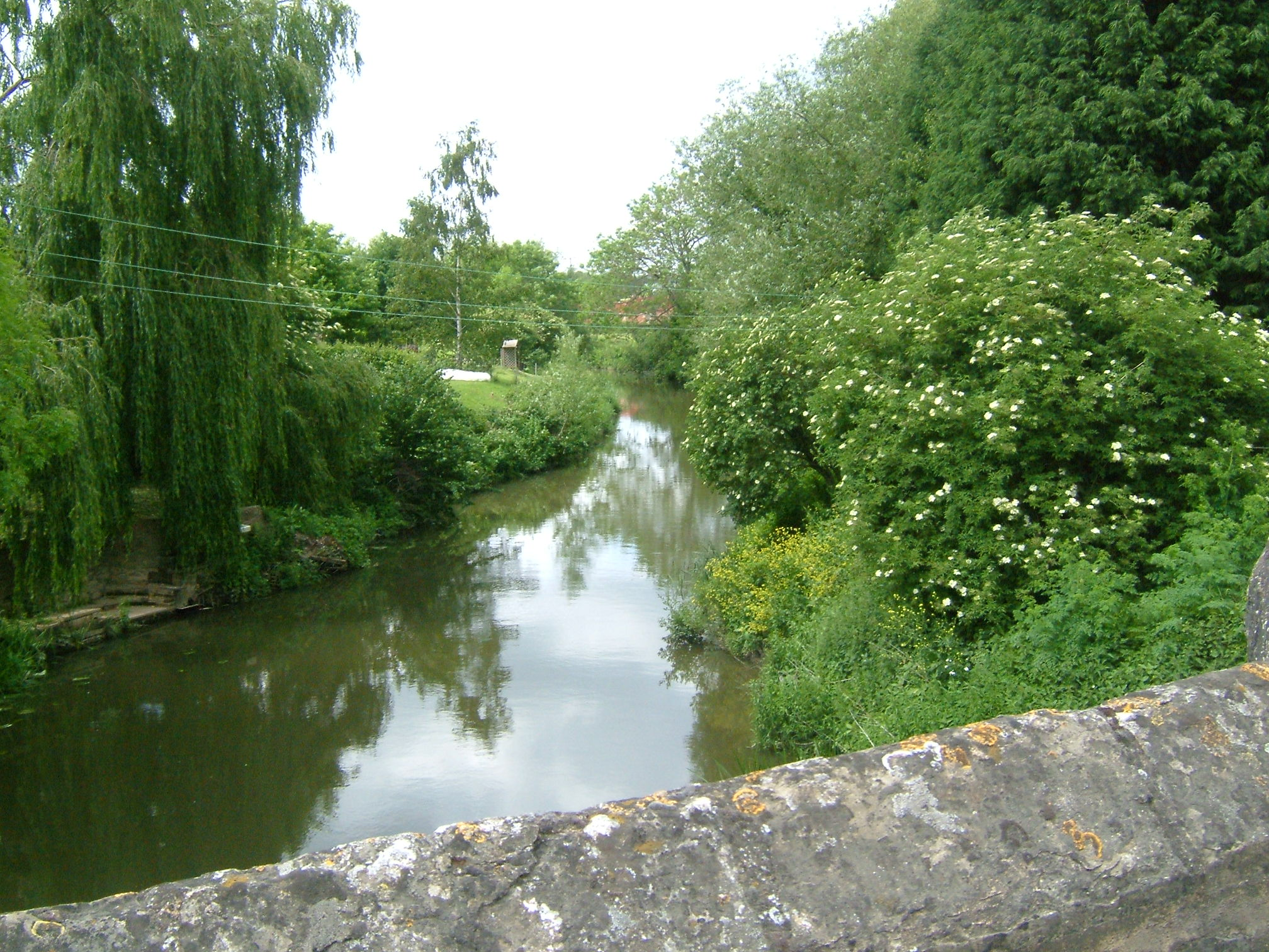 View from Yalding Bridge or Town Bridge, on the River Beult at Yalding, Kent. Riverside homes on the River Beult at Yalding behind the post office, just before it joins the Medway. At Yalding there is an automatic sluice where the Medway drops from +11.2m to +7.41m above mean sea level (which it is here). The navigation bears left through Hampstead Lane Canal and Hampstead Lock; the main stream drops over the weir and sluice and is joined by the River Teise (Lesser Teise), and both pass under Twyford Bridge. The river then flows in a loop towards Yalding, where it is joined by the River Beult which has been joined by the River Teise (the other bit!) and passes under Town Bridge. Town bridge is 10 miles from Allington. Town bridge is the longest mediaeval bridge in Kent.